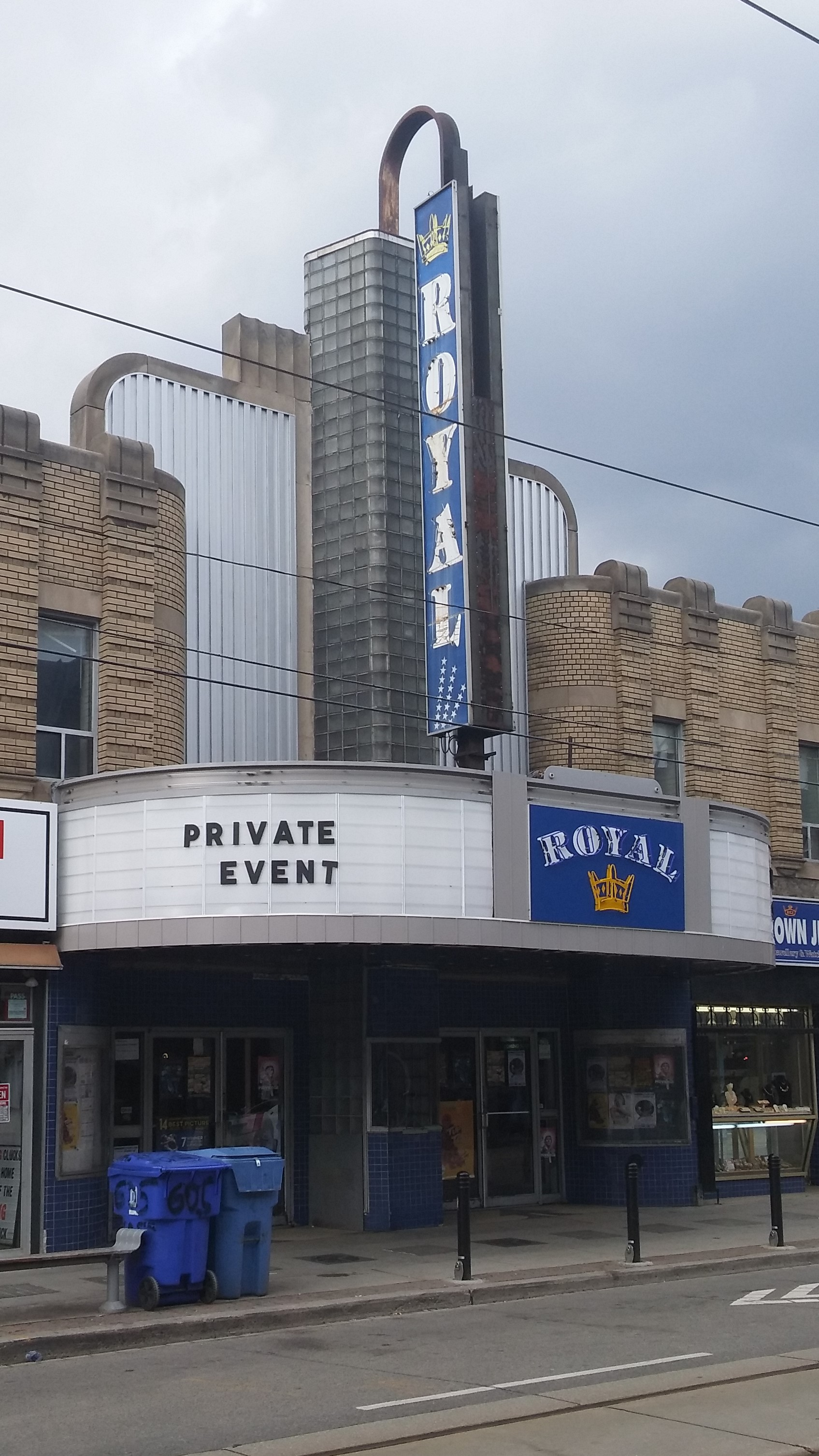 The Royal Cinema in Toronto, Canada.